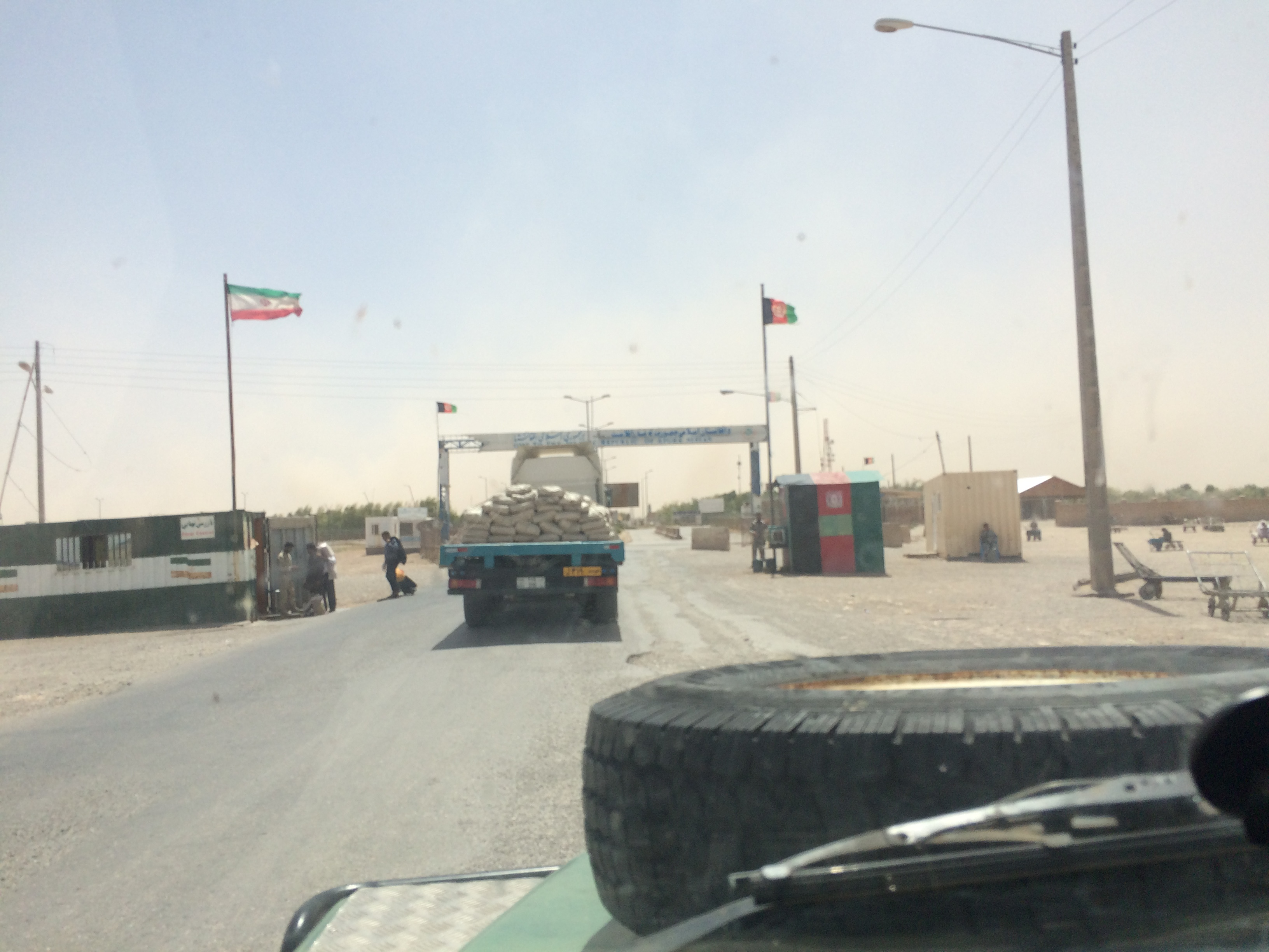 Arriving at Islam Qala, entering Afghanistan